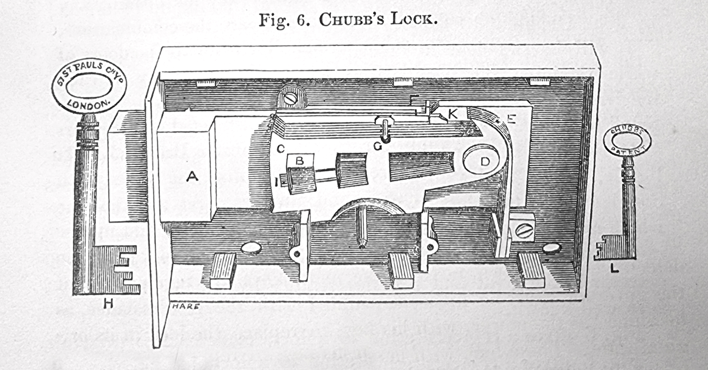 Diagram of Chubb Detector Lock. "K" and "F" comprise the detector mechanism. K is the catch on the back lever and F is the end of the horizontal detector spring.